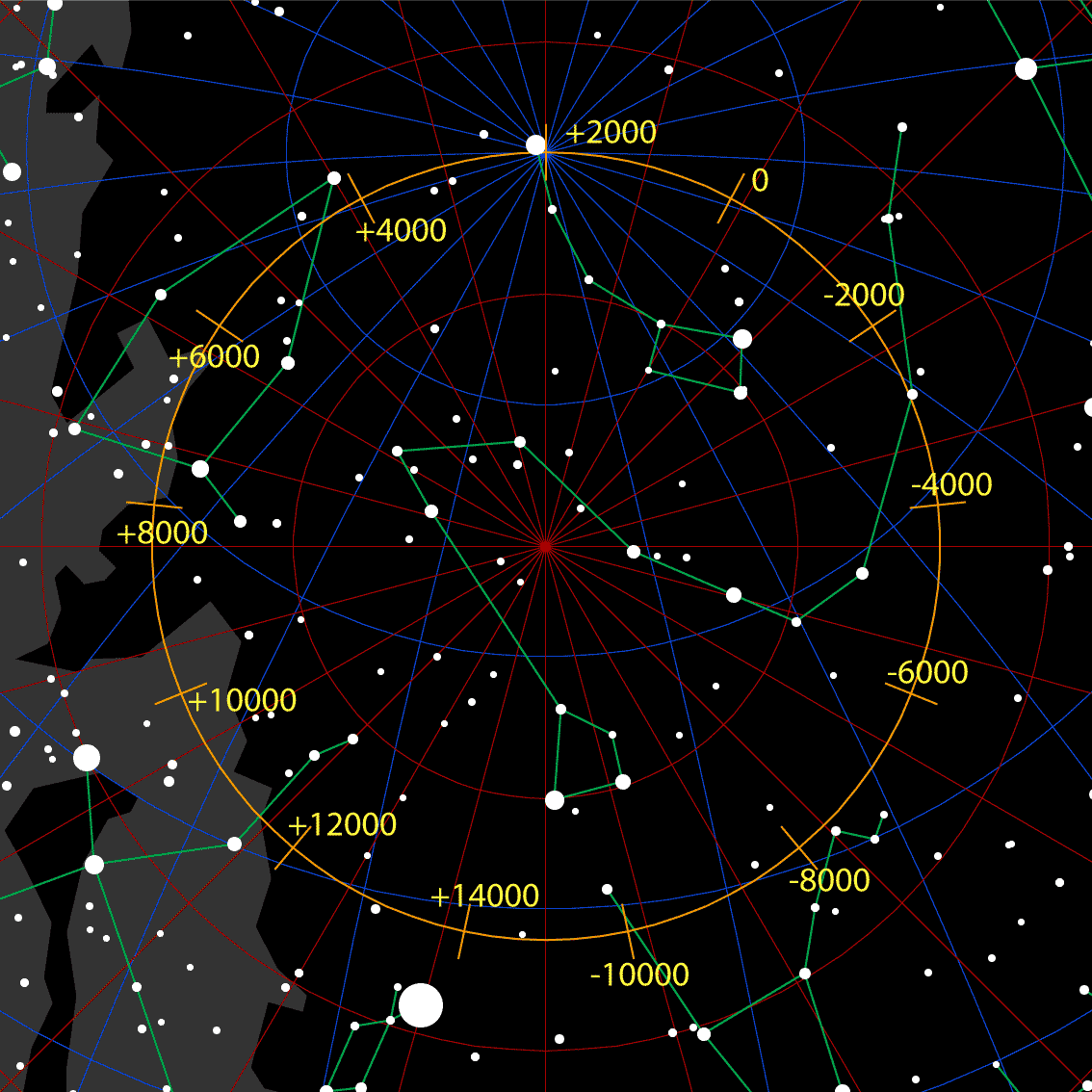 The path of the north celestial pole among the stars due to the precession (assuming constant precessional speed and obliquity of epoch JED 2000)